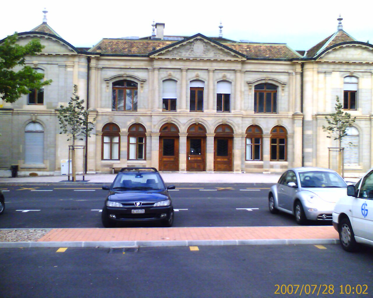 Chateau at the International School of Geneva.